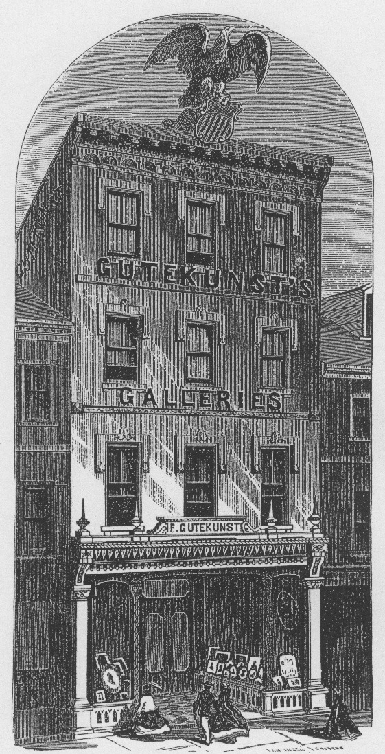 exterior, Linotype of Studio